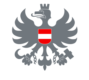 An eagle displayed sable; beaked, taloned and gambed Or, langued Gules, crowned with a Mural Crown Or, holding in its dexter talon a sickle Or and in its sinister talon a hammer, also Or.